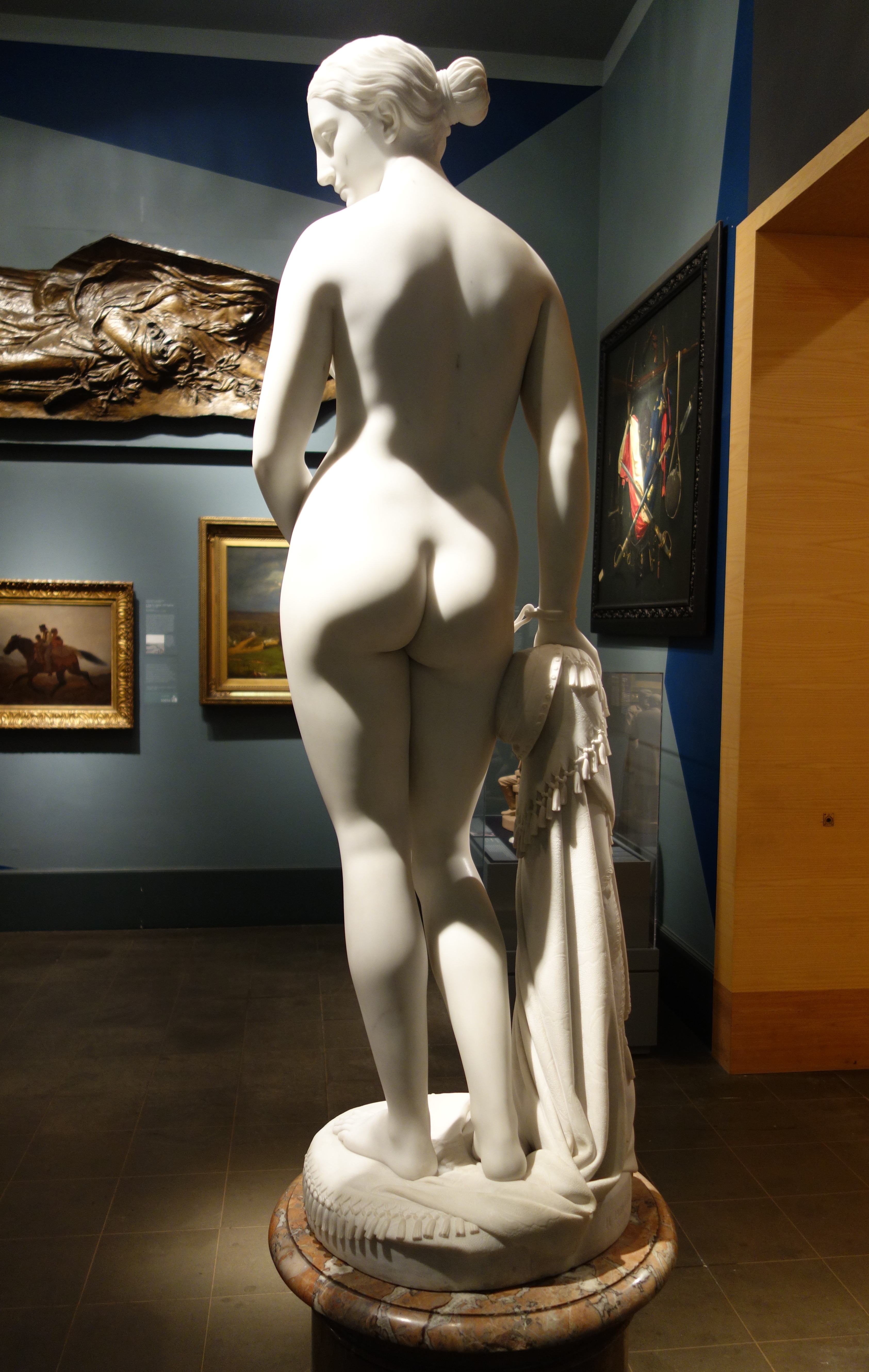 Exhibit in the Brooklyn Museum - Brooklyn, New York, USA. This artwork is in the public domain because the artist died more than 70 years ago.